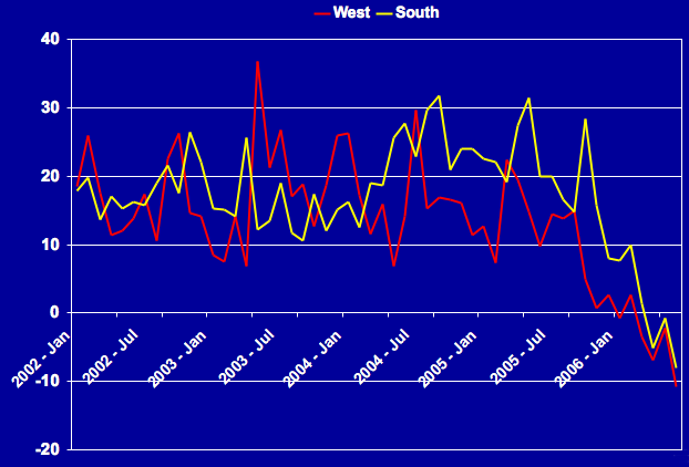 Condominium Price Depreciation in the south and west United States, 2002–2006. Source of data: National Association of Realtors.